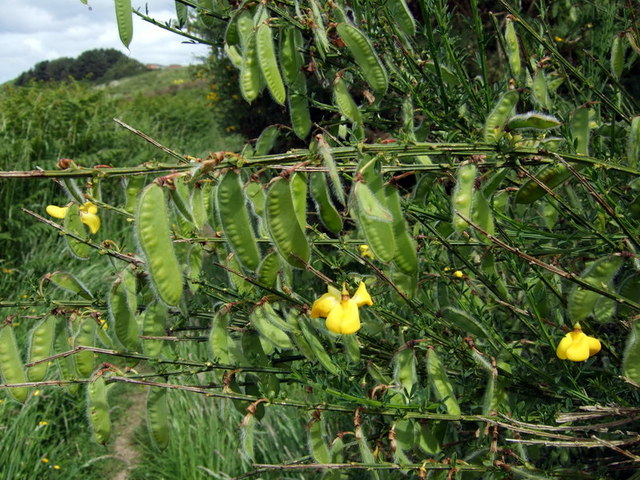 New broom on the path Fresh pods of Cytisus scoparius overhang the path that winds around the leafy Cwm Brandy valley. Broom is named for its traditional use, sweeping, and its specific name comes from scopa, a besom in Latin. It is an interesting plant historically and is also important medicinally.